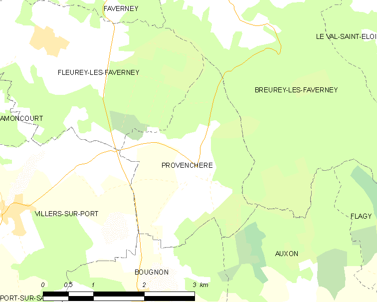 Map of French municipality